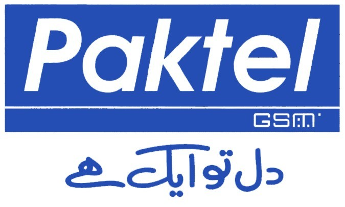 Paktel GSM with Urdu text